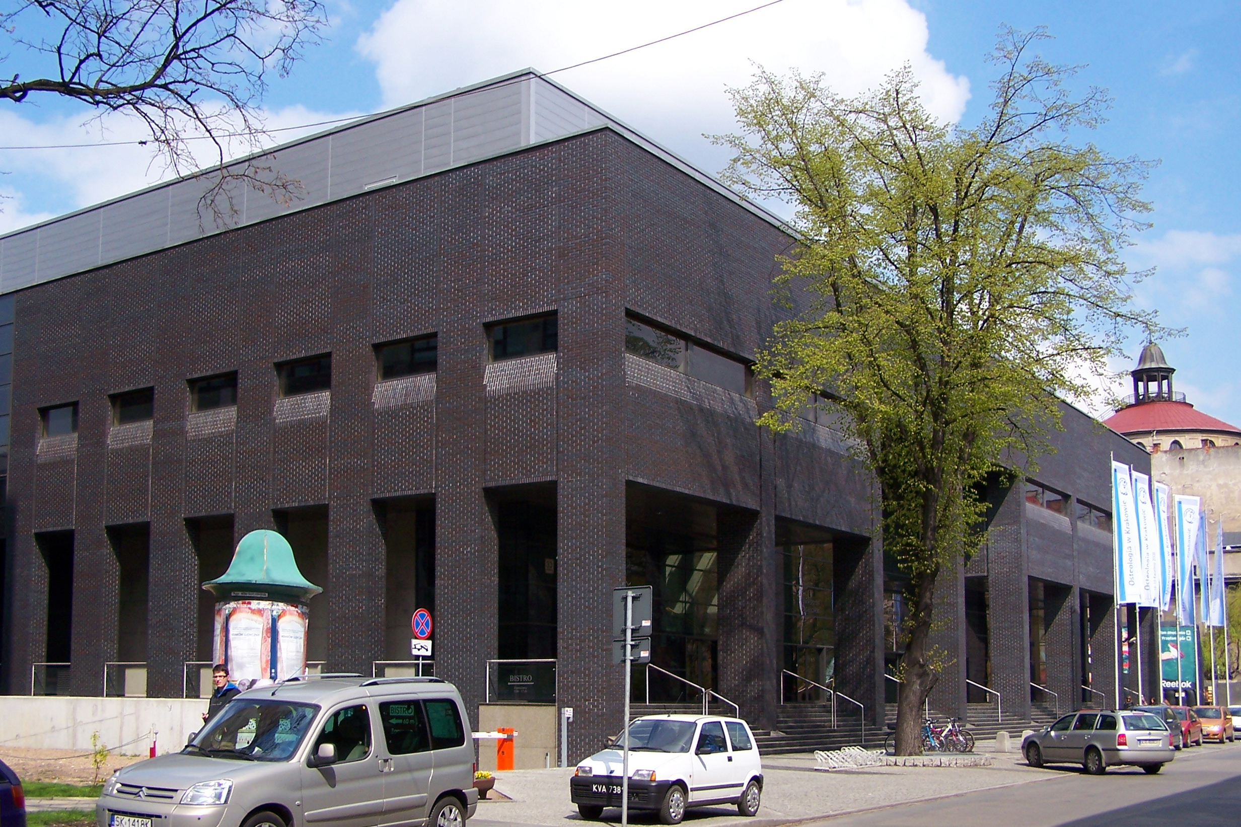 Auditorium Maximum Jagiellonian University in Kraków (Poland).